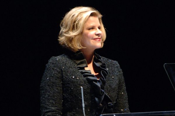 Opera singer Susan Graham hosts the National Endowment for the Arts Opera Honors on Friday, October 31, 2008 at the Harman Center for the Arts in Washington, DC.